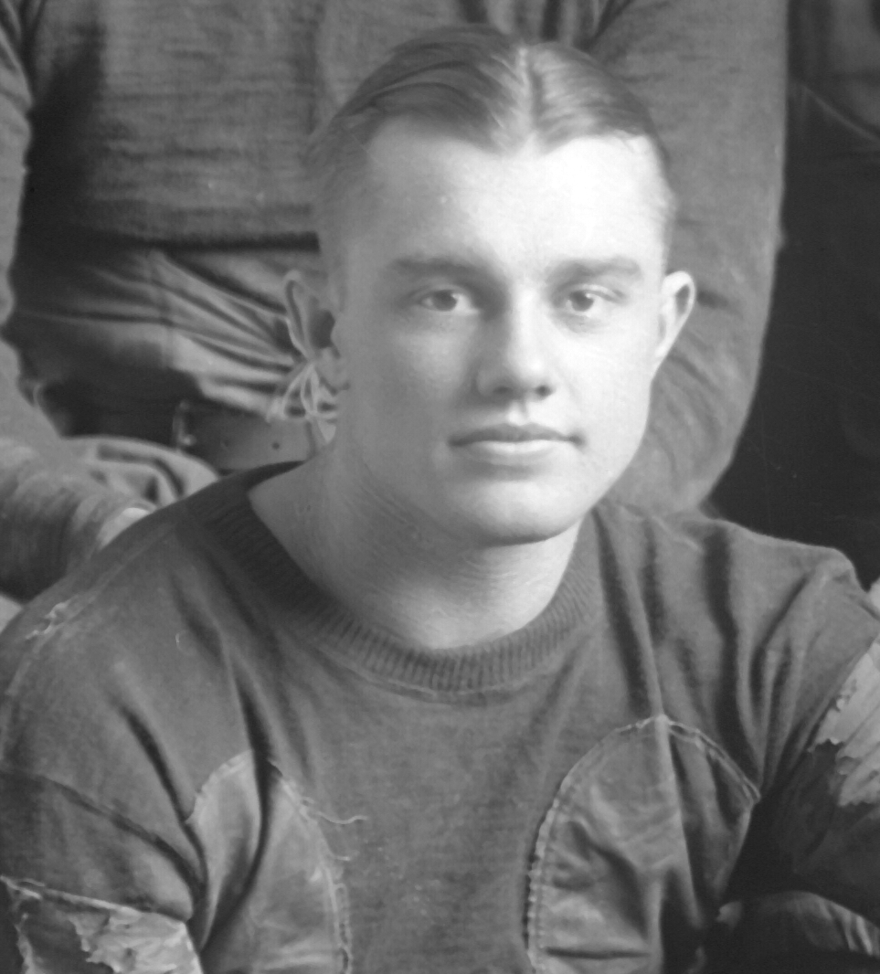 Photograph of Irwin Uteritz